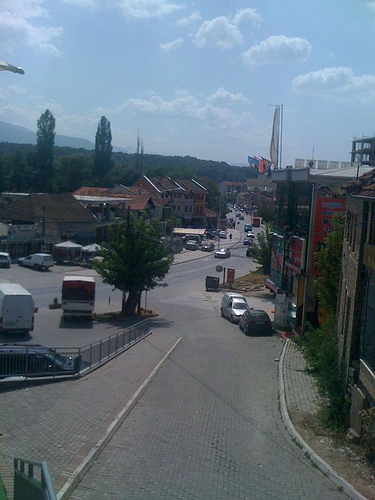 A street in Suva Reka